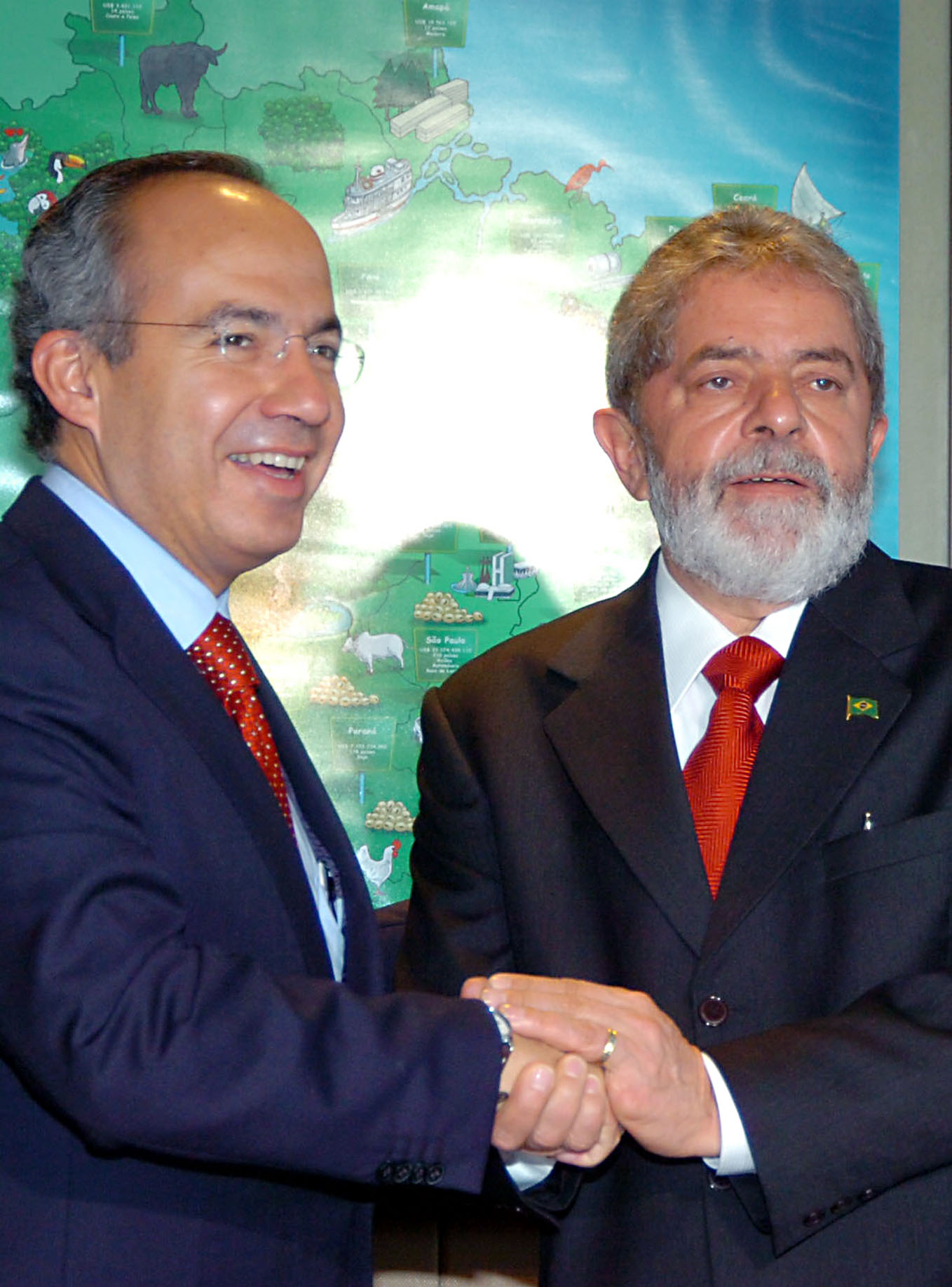 Felipe Calderón, president-elect of Mexico (left) and Luiz Inácio Lula da Silva, ex-president of Brazil (right).